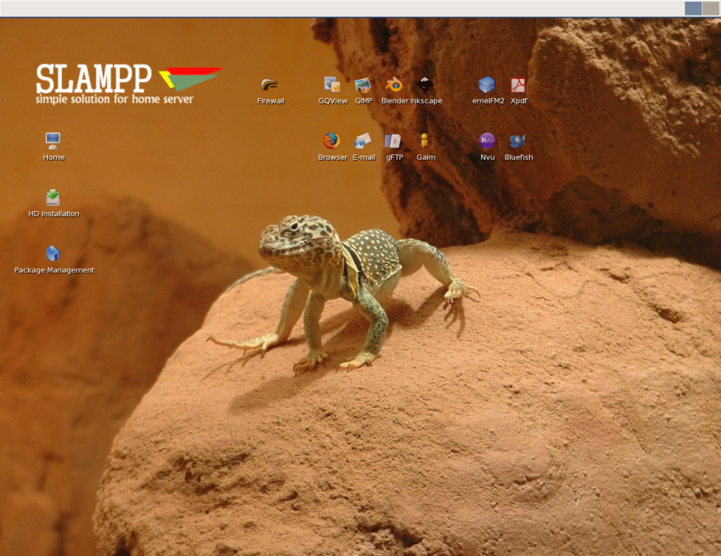 SLAMPP screenshot Article: SLAMPP License